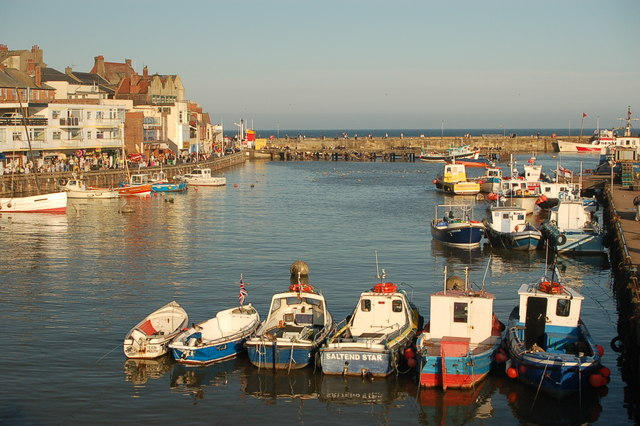 Bridlington Harbour, Bridlington, East Riding of Yorkshire, England.